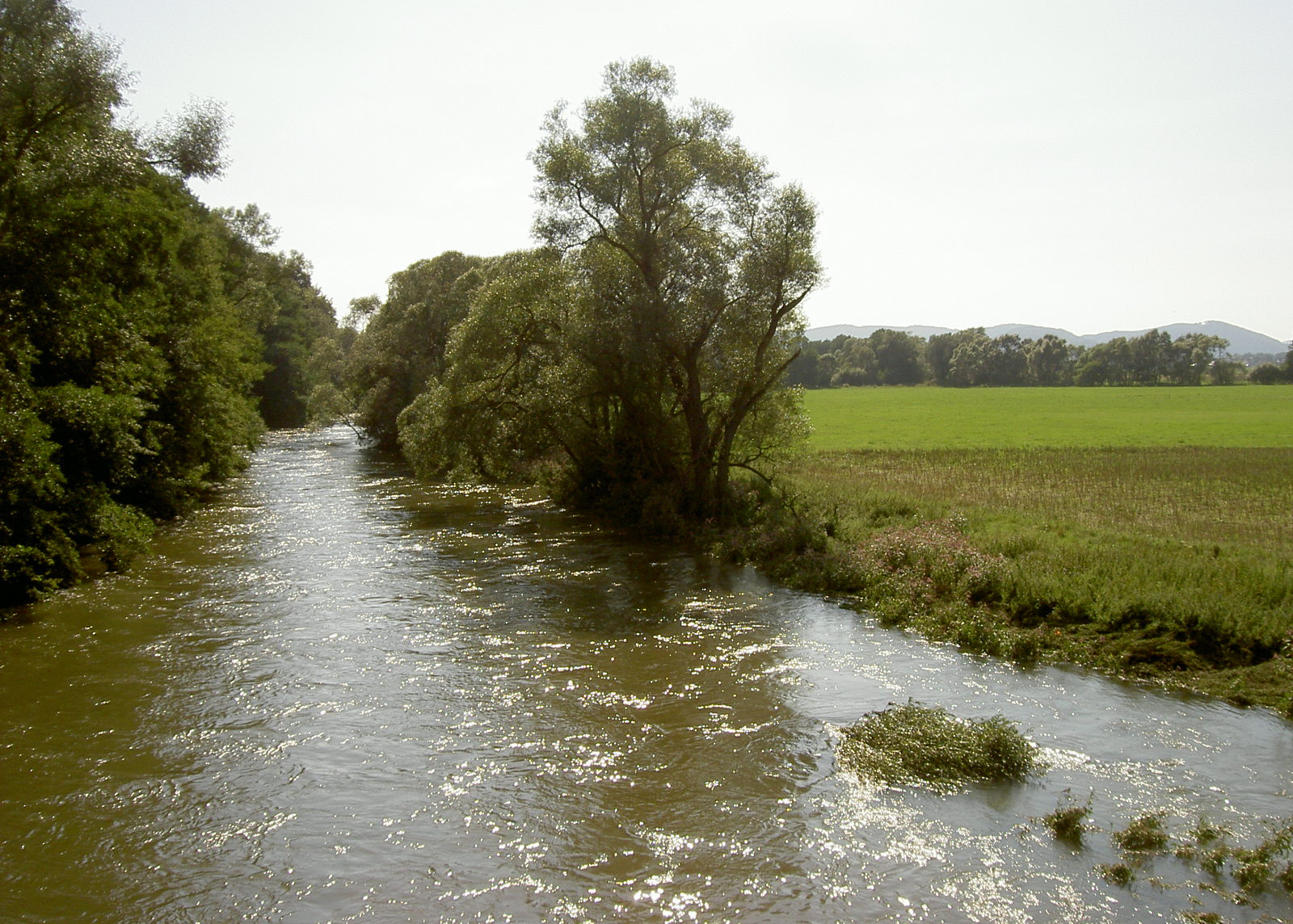 The river Eder after rain. Location near town Frankenberg in Hesse Germany